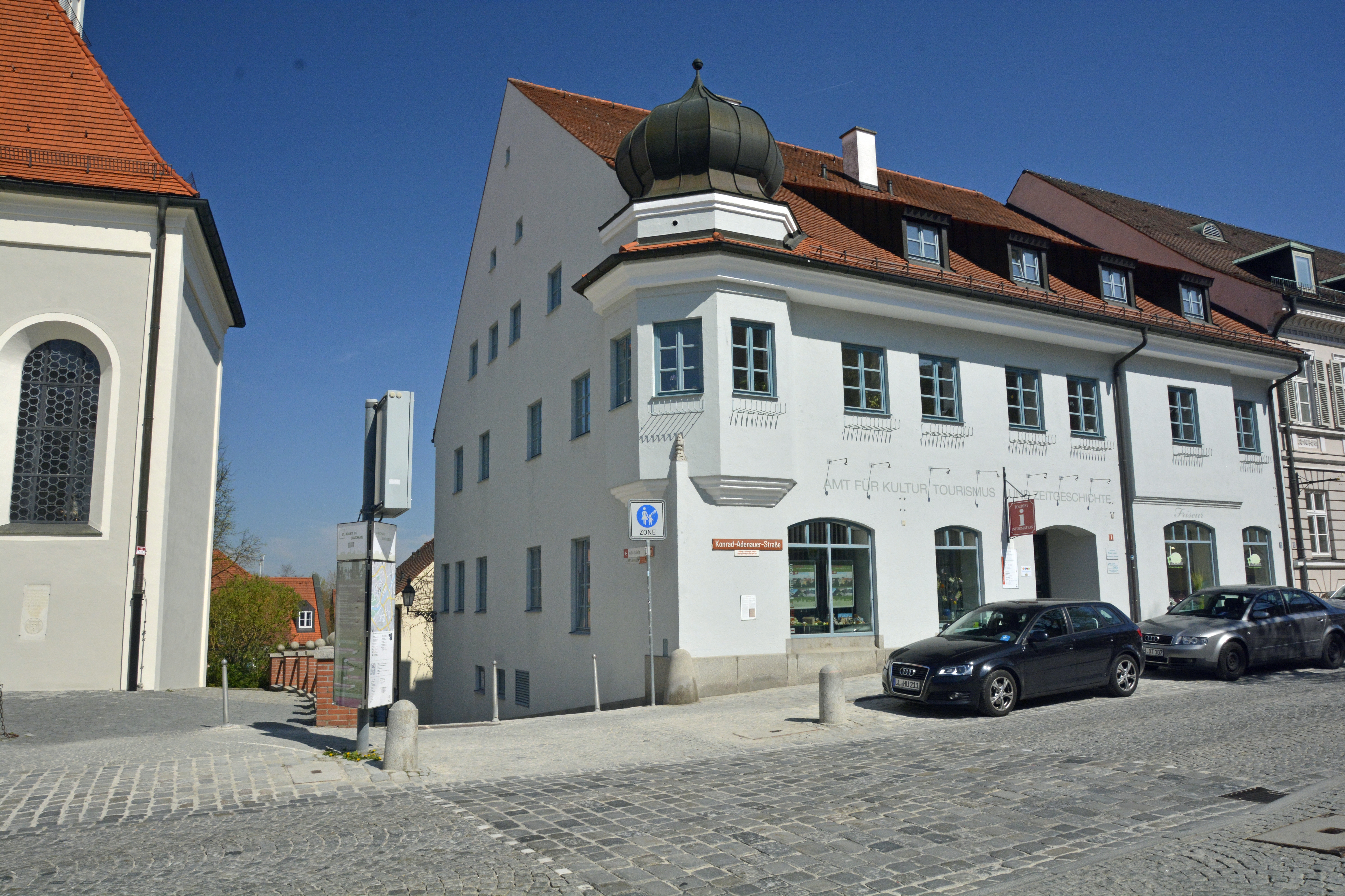 Dachau - Office for Culture and Tourism of the City of Dachau